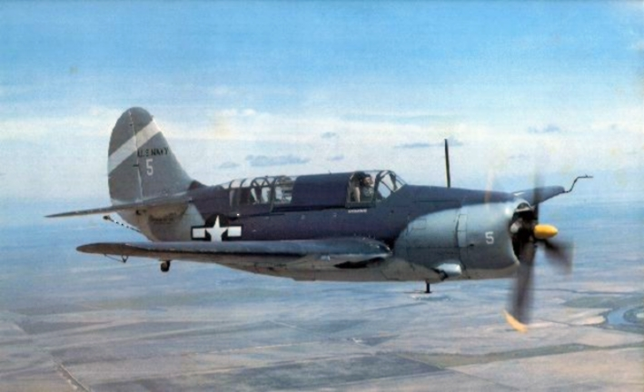 A Curtiss SB2C Helldiver in tricolour scheme and tail markings for Bombing Squadron 80 (VB-80), which operated off the aircraft carrier USS Hancock (CV-19), in February 1945.This aircraft is the SB2C-5, BuNo 83589. It is flying with the Commemorative Air Force, based in Graham, Texas (USA).